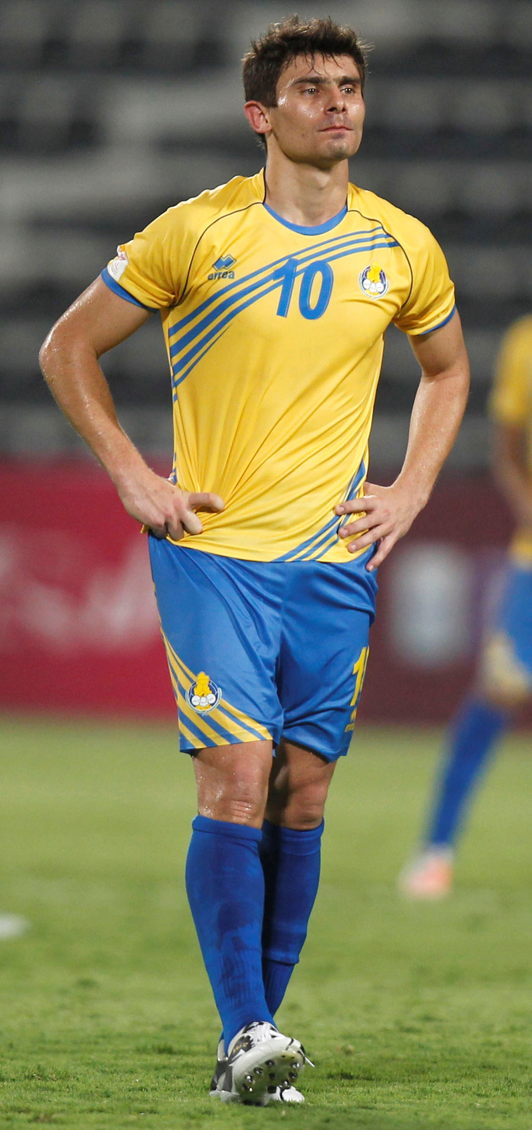 Al Gharafa's Alex Meschini during his team's Qatar Stars League match against Al Wakrah. Photo by Dabbous Mohammed.